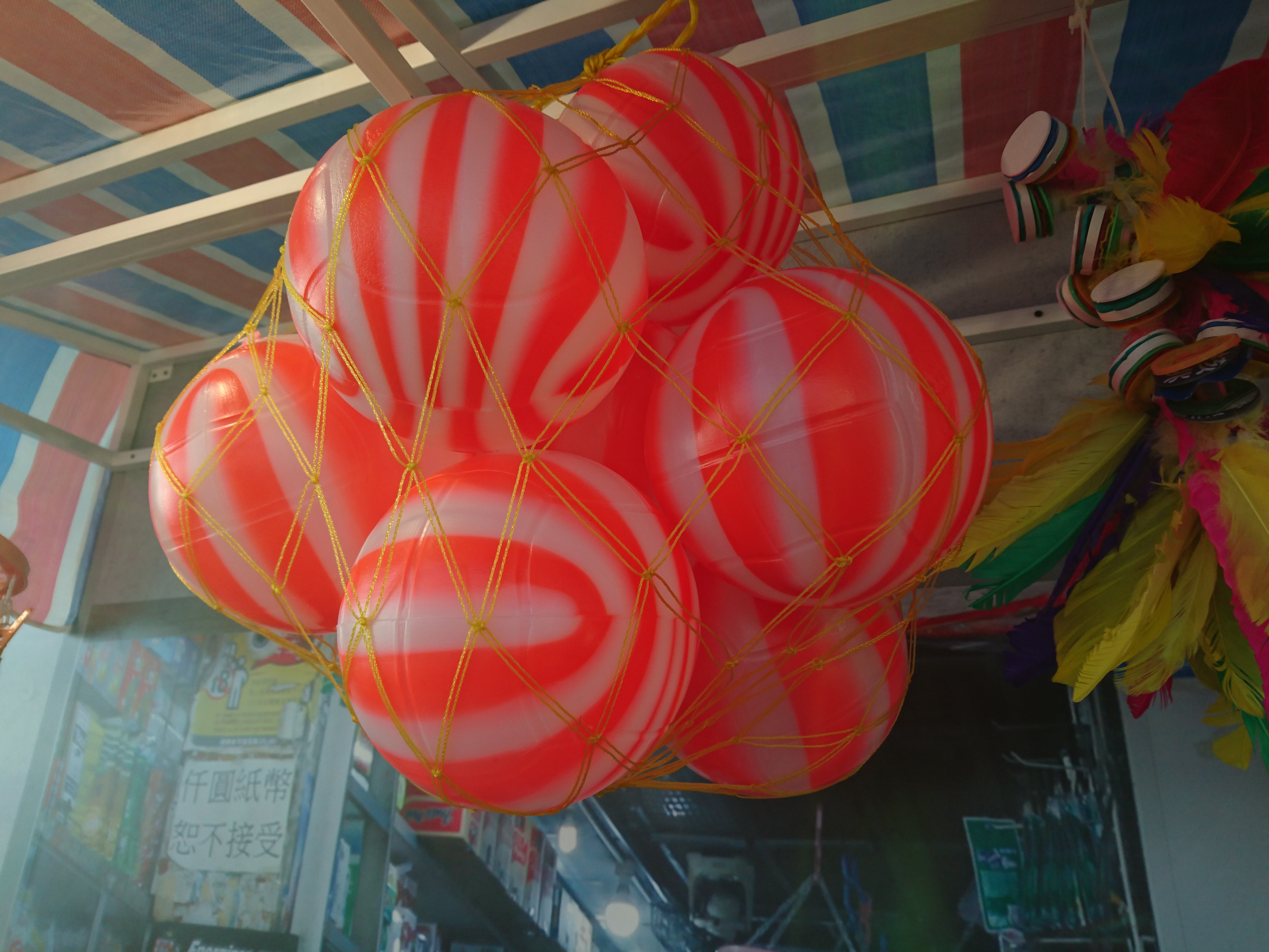 Watermelon Footballs in Hong Kong Traditional Store (Model)